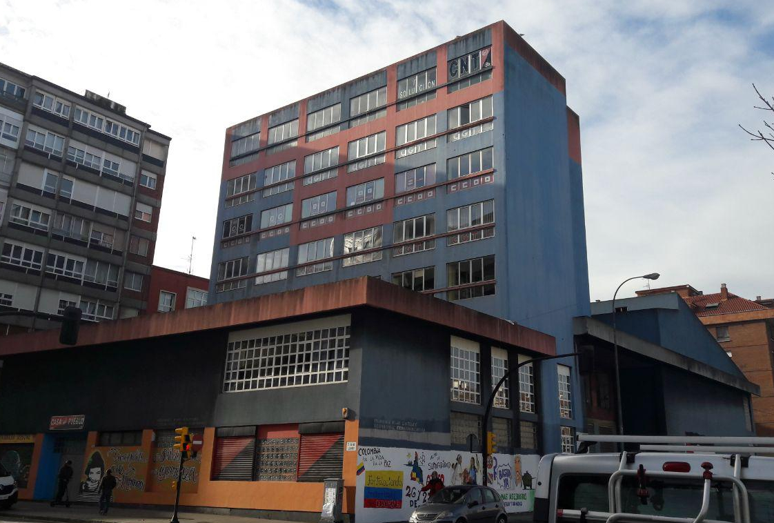 Image of the building placed in calle Sanz Crespo in Gijón, Asturias